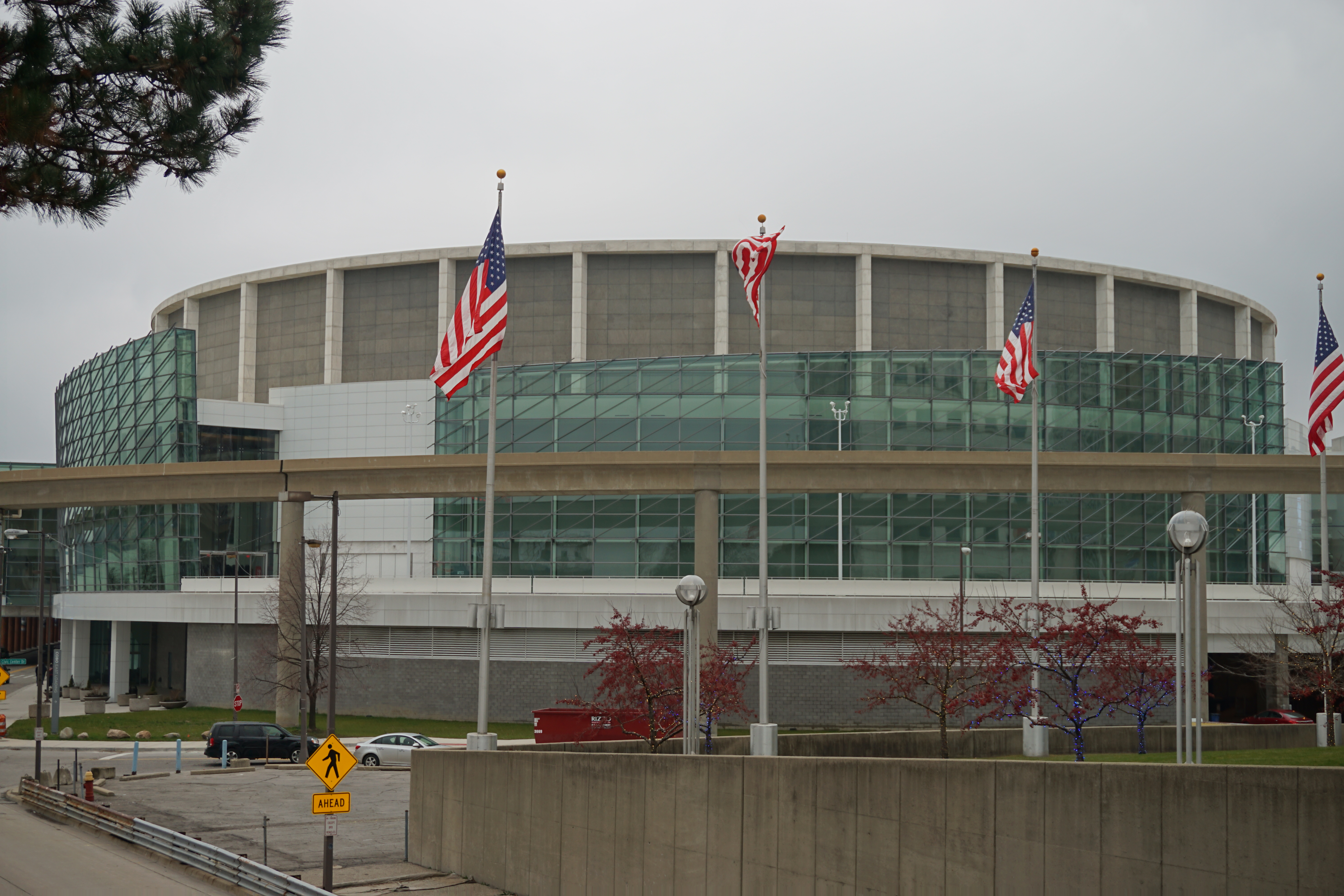 Cobo Center in Detroit, Michigan (United States).